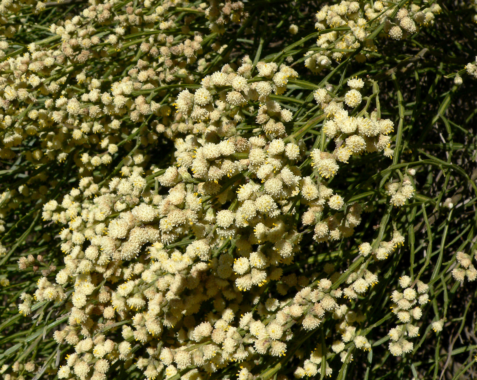 Baccharis articulata at the University of California Botanical Garden, Berkeley, California